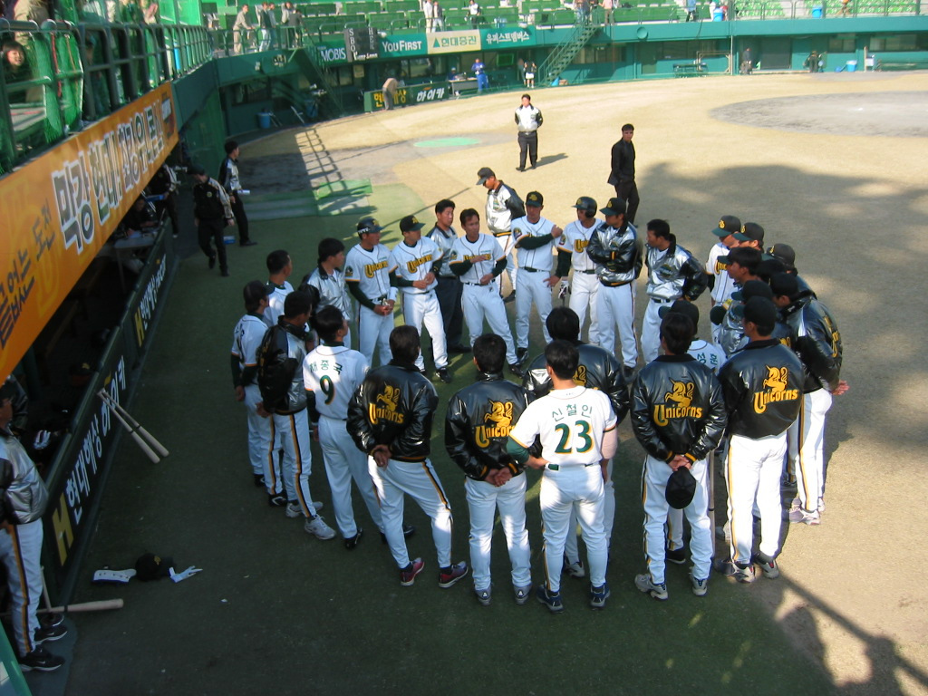 my own photo, accompanies Hyundai Unicorns. 11:36, 15 February 2006 . . Deiz . . 1024×768 (296,239 bytes)